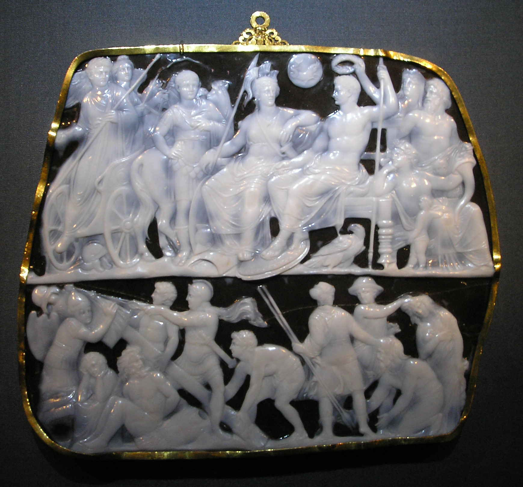 Gemma Augustea, a depiction of Emperor Augustus surrounded by goddesses and allegories. Collection of Greek and Roman Antiquities in the Kunsthistorisches Museum, Vienna. Roman, 9-12 CE. Two-Layered onyx. H: 19 cm. Setting: gold frame, reverse side in ornamented open-work; German, 17th century. AS Inv. No. IX A 79.